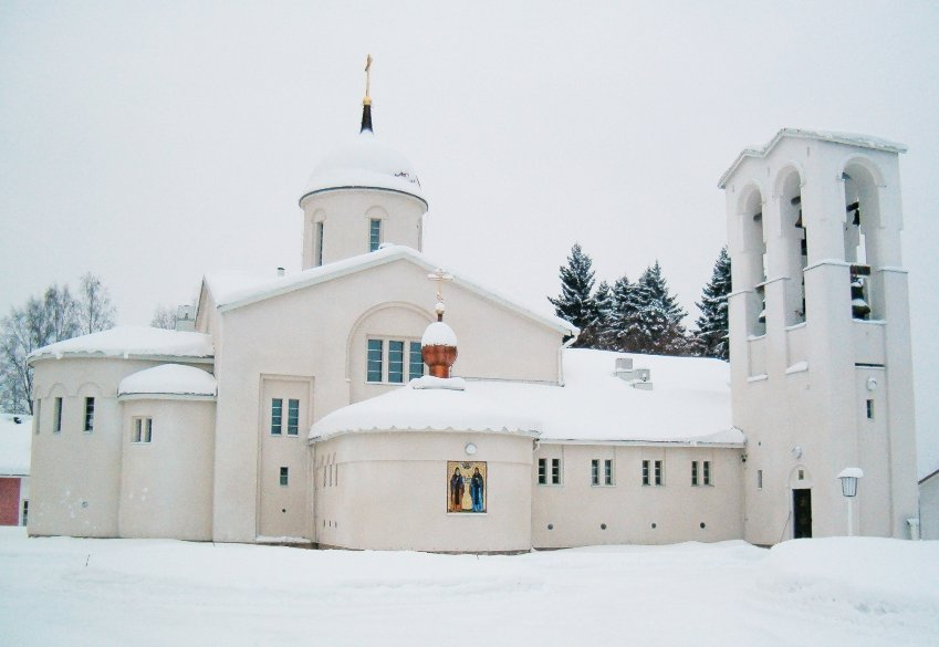 New Valamo (or New Valaam) monastery Main church, new church in Heinävesi, Finland.